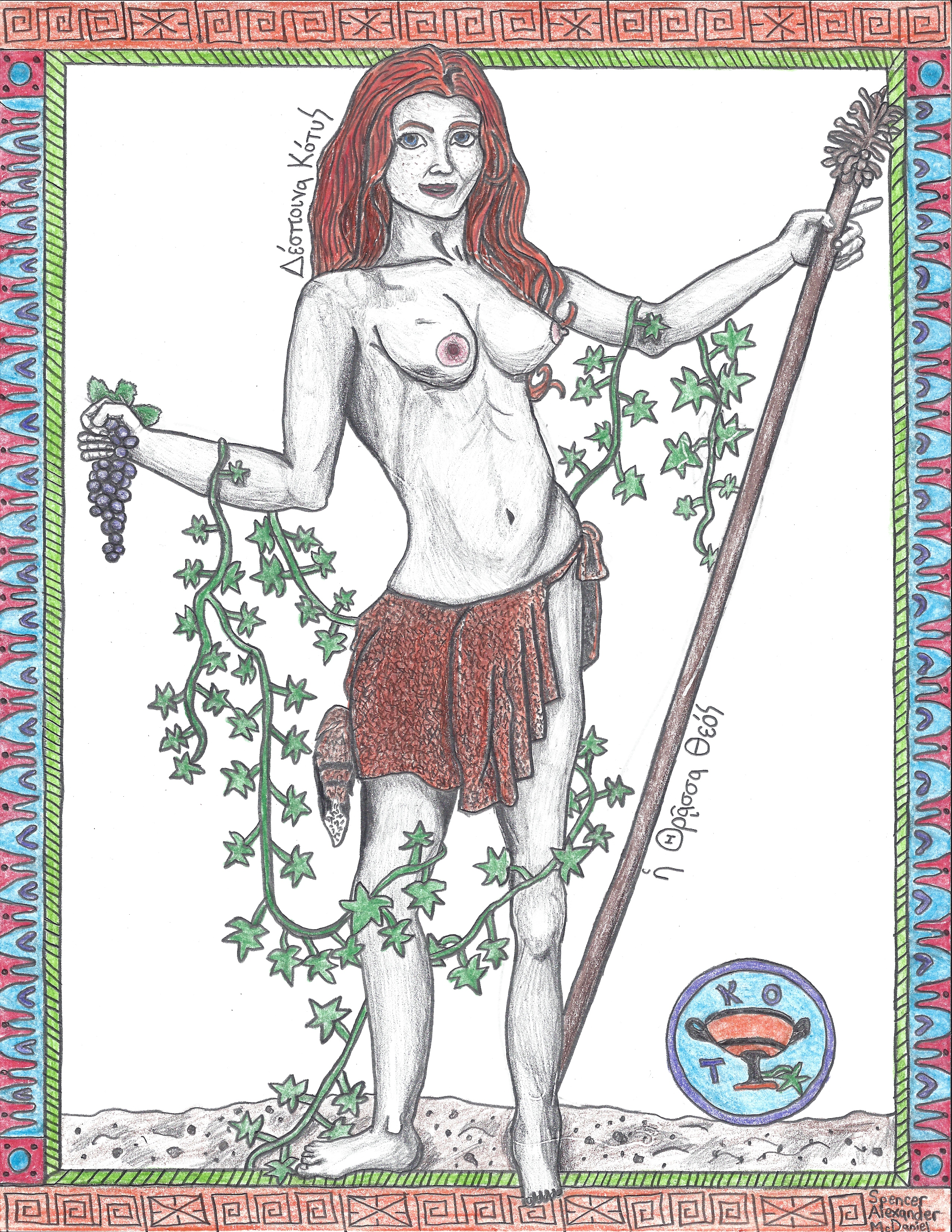 This is a pencil illustration by Spencer Alexander McDaniel intended to represent the ancient Thracian goddess Kotys. Kotys was associated with sexuality, so the artist chose to depict her half-clothed, wearing only a foxskin skirt wrapped around her waist. Kotys was a Thracian goddess and the ancient Greeks stereotyped Thracians as having red hair, so the artist decided to depict her with red hair. She is shown bedecked in ivy, holding a thyrsos in her left hand and a bunch of grapes in her right, because the ivy, grapes, and the thyrsos are all symbols that the ancient Greeks associated with revelry and ritual madness. The words in Greek by her head and by her thyrsos say "Mistress Kotys" and "the Thracian Goddess" respectively. The designs along the left and right sides of the drawing are based on patterns from Thracian art. The designs along the top and bottom are based on designs from ancient Greek pottery. The circular image in the lower right-hand corner is based on a coin minted by the Odrysian king Kotys I, who was evidently named after the goddess. It shows a kylix, or drinking cup, and an ivy leaf with the first three letters of the name "Kotys" in Greek.